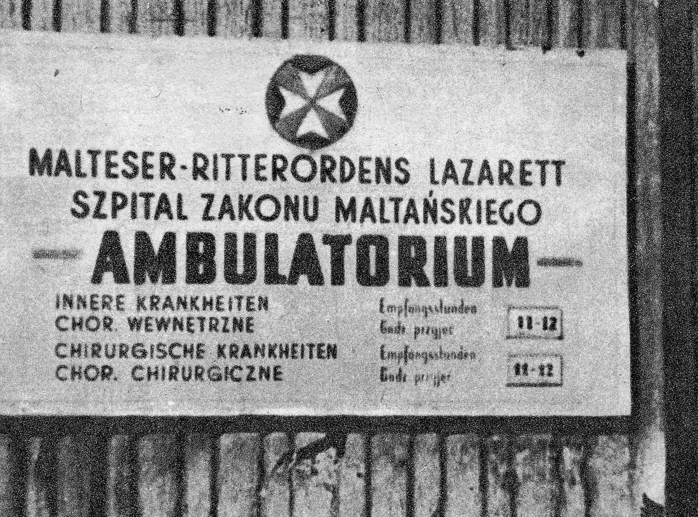 Pleaque at the entrance to Maltański Hospital at 38/40 Senatorska Street in Warsaw